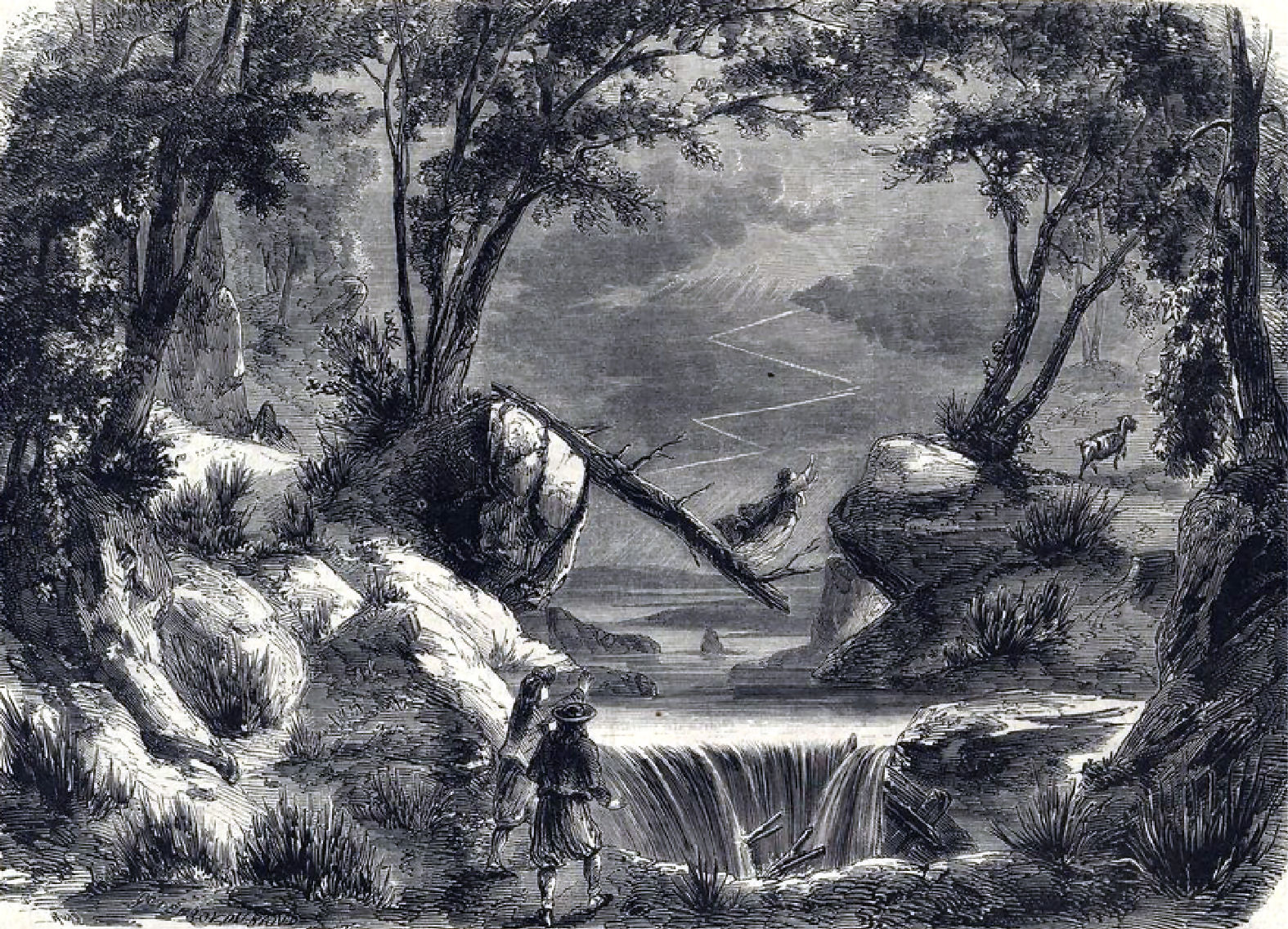 Set of Giacomo Meyerbeer's Le Pardon de Ploërmel (Dinorah) Act 2 Scene 2, by Edouard Desplechin